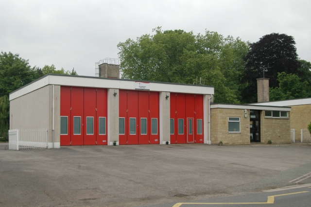 Monmouth Fire Station Monmouth Fire Station, Rockfield Road, Monmouth is one of the 50 fire stations making up South Wales Fire & Rescue Service